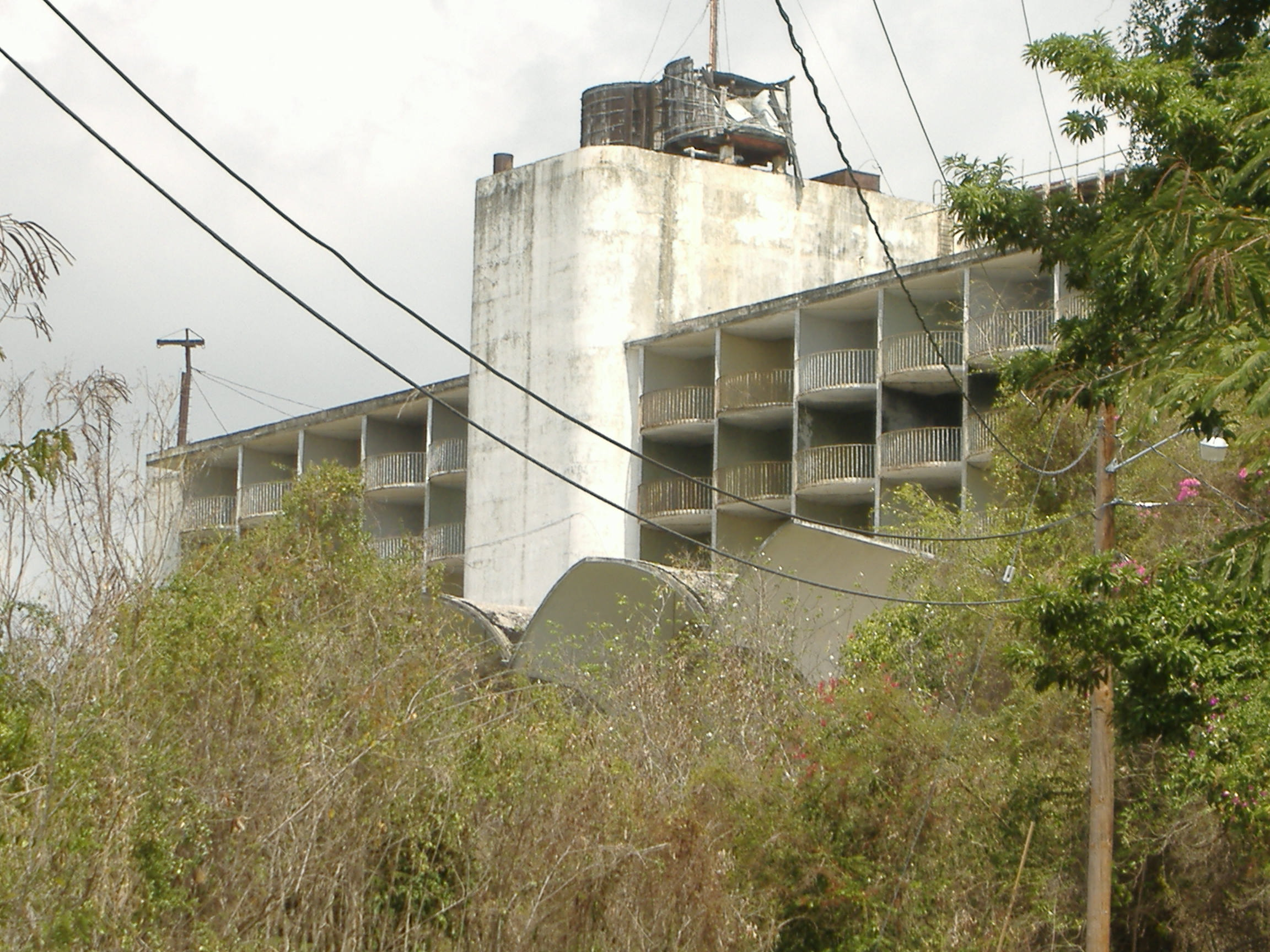 The abandoned Intercontinental Hotel in Ponce, Puerto Rico